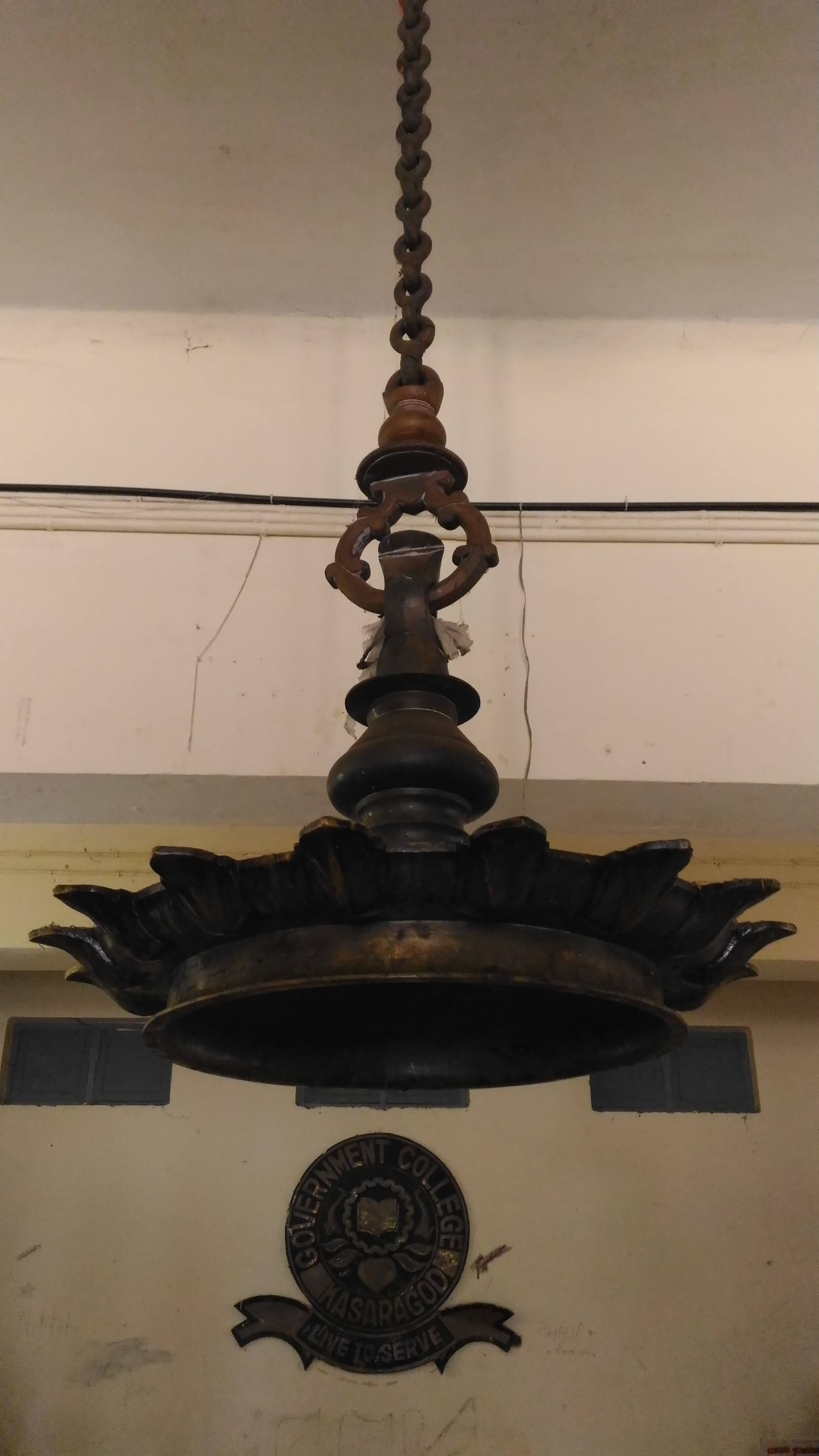 Government_college_kasaragod- Huge Bronze Lamp in the entrance